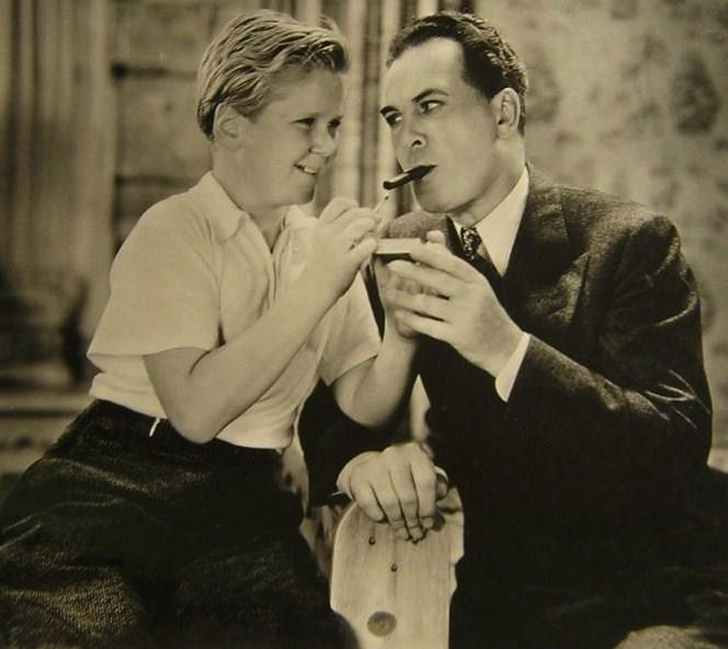 Jackie Cooper and Thomas Meighan in Peck's Bad Boy (1934) - publicity still cropped (original image damaged : see source)